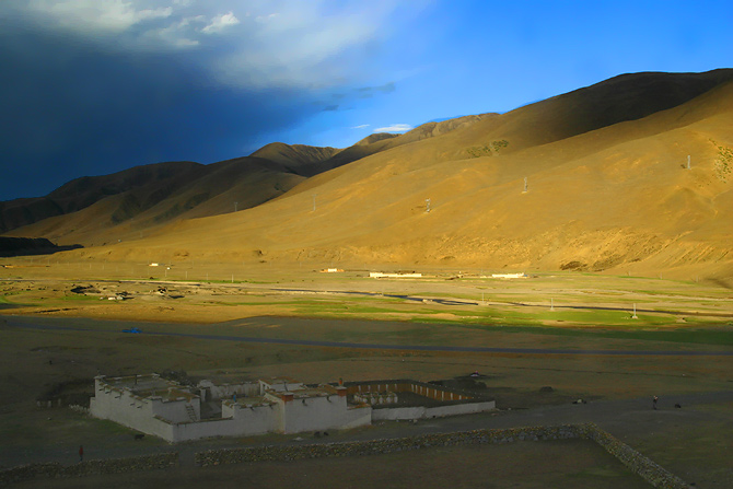 Damxung County, Tibet Autonomous Region, China